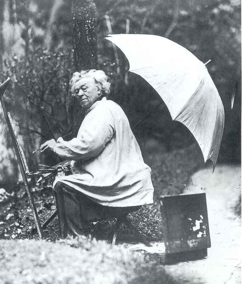 Corot